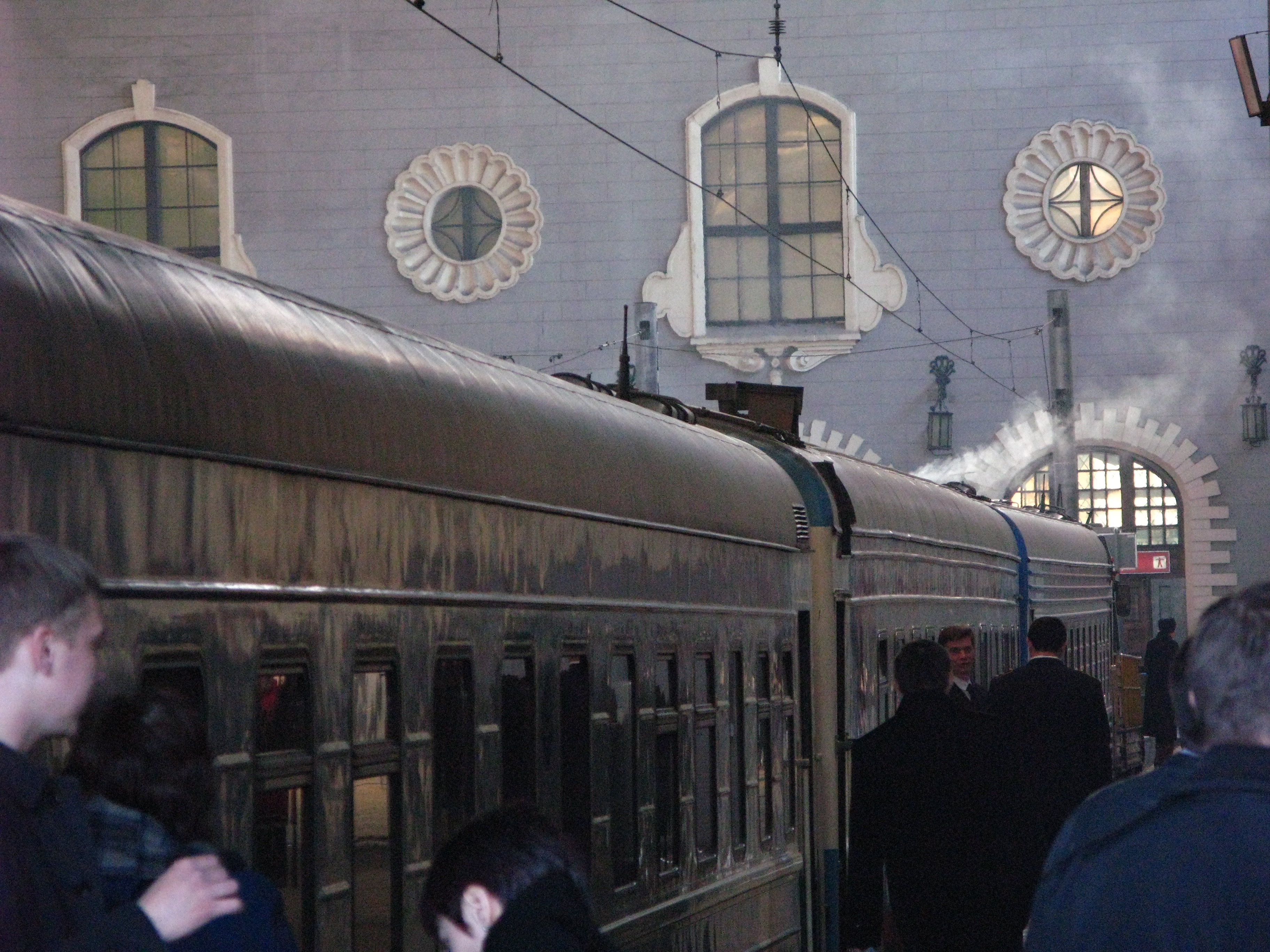 Kazansky train station, starting point of Trans-Siberia in Moscow.